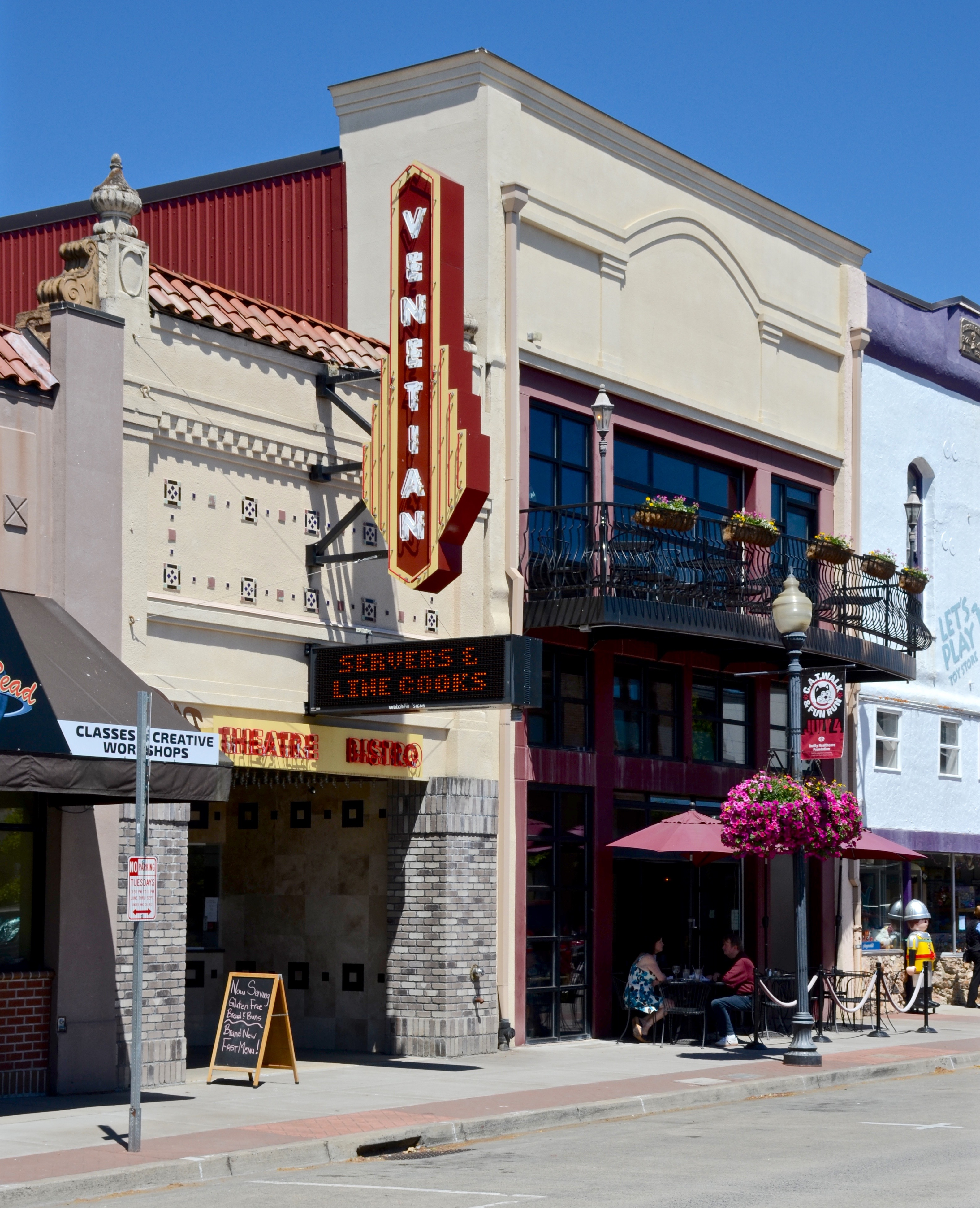 The Venetian Theatre and Bistro in historic downtown Hillsboro, Oregon. Known as The Venetian from 1925 to 1956 and again since 2008, the movie theater was known as the Town Theater from 1957 to 1996. It was built in 1925 to replace the fire-destroyed Liberty Theater, which had stood on the same site (1916–1925, briefly known as the Grand Theater, c. 1912–1915).